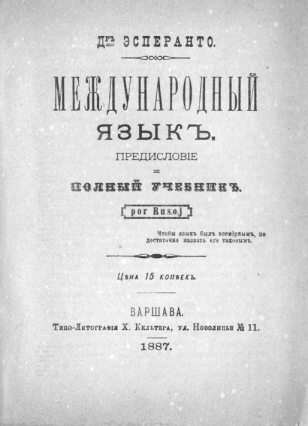 The International Language for Russians—the first textbook of Esperanto.